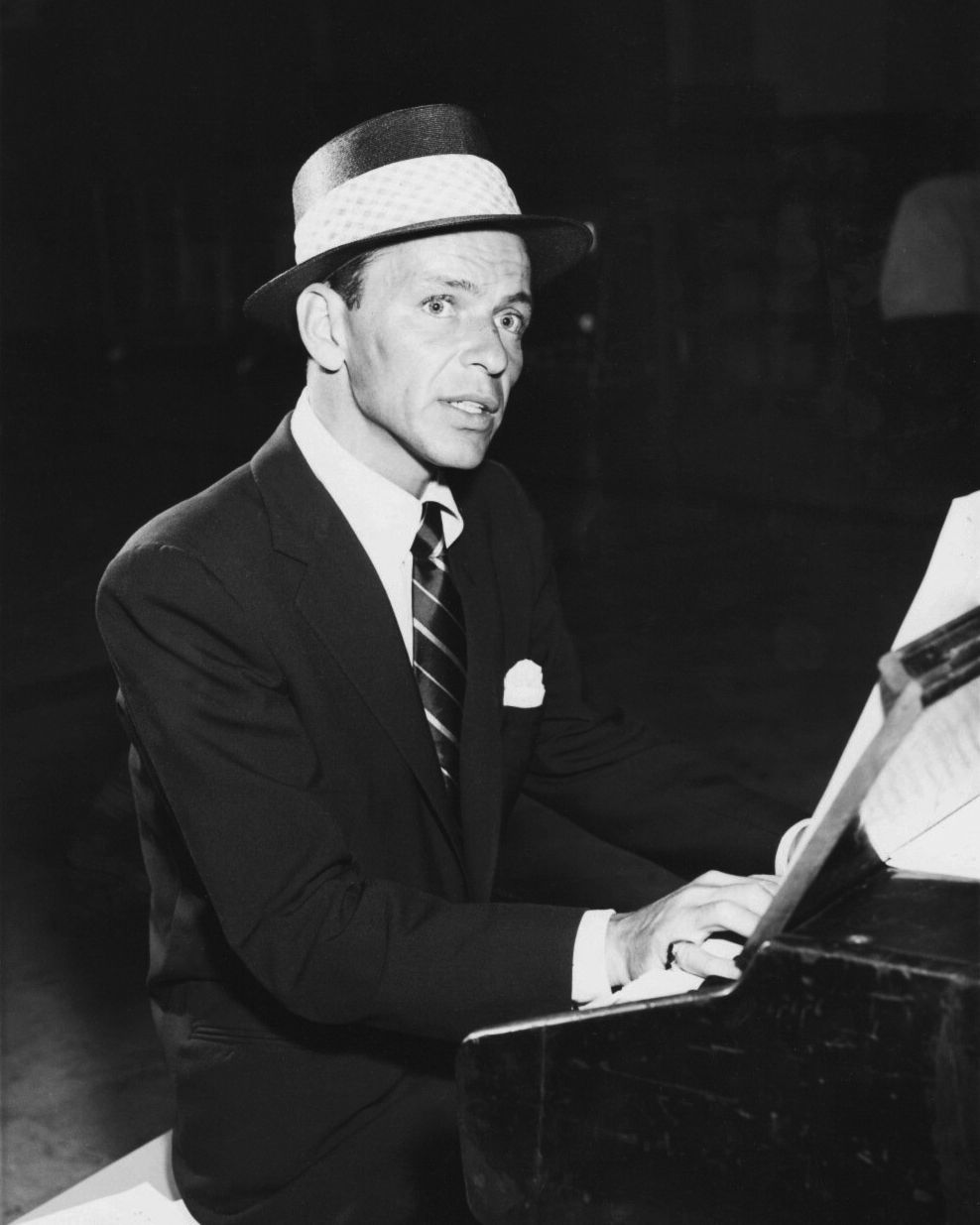 Photo of Frank Sinatra in the role of the Stage Manager for a television production of ‘’Our Town’’ in 1955, which was presented on ‘’Producers’ Showcase’’.